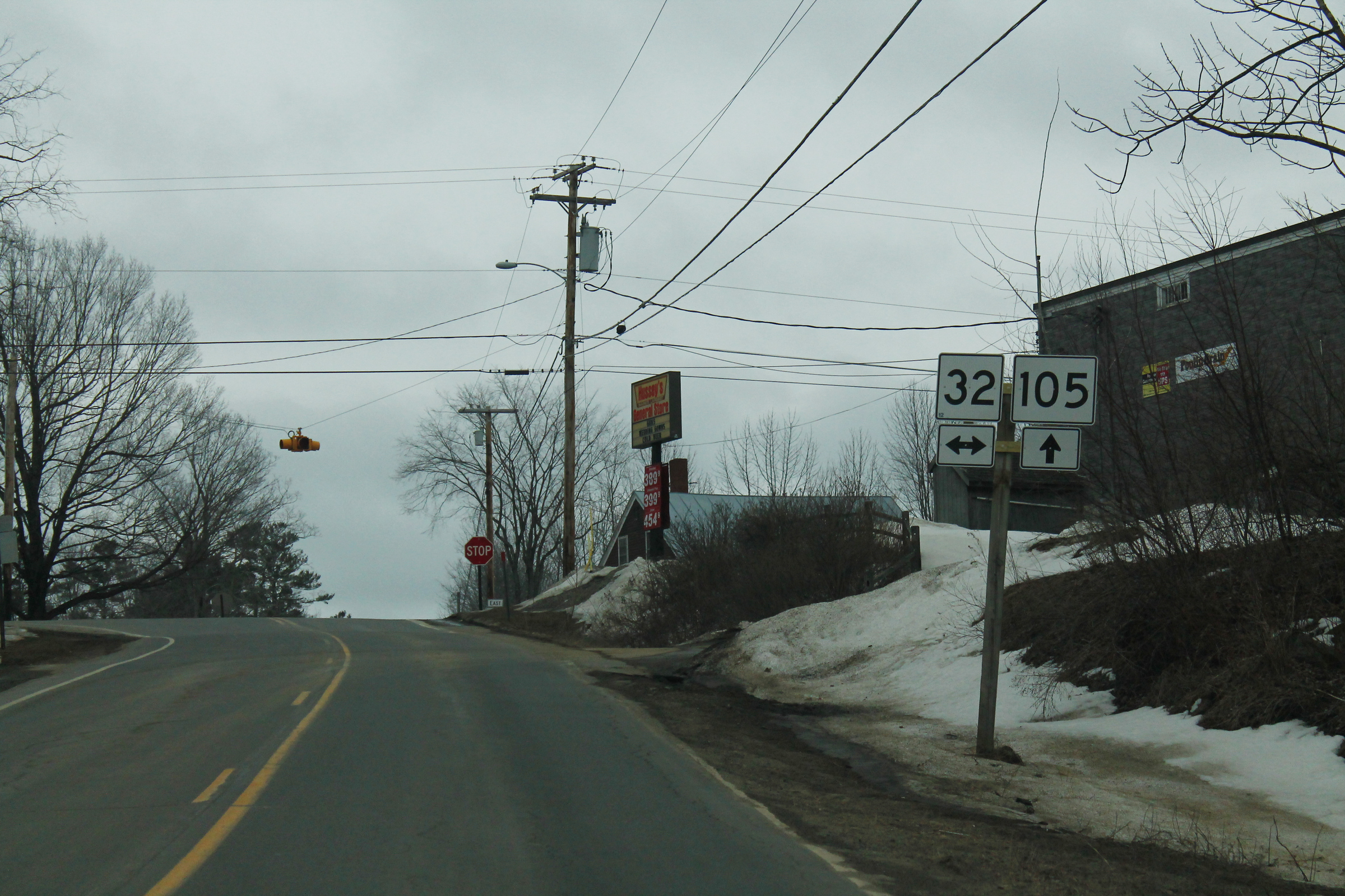 ME105eRoad-ME32nsSigns